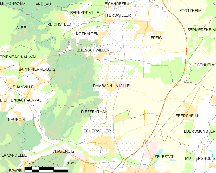 Map of French municipality